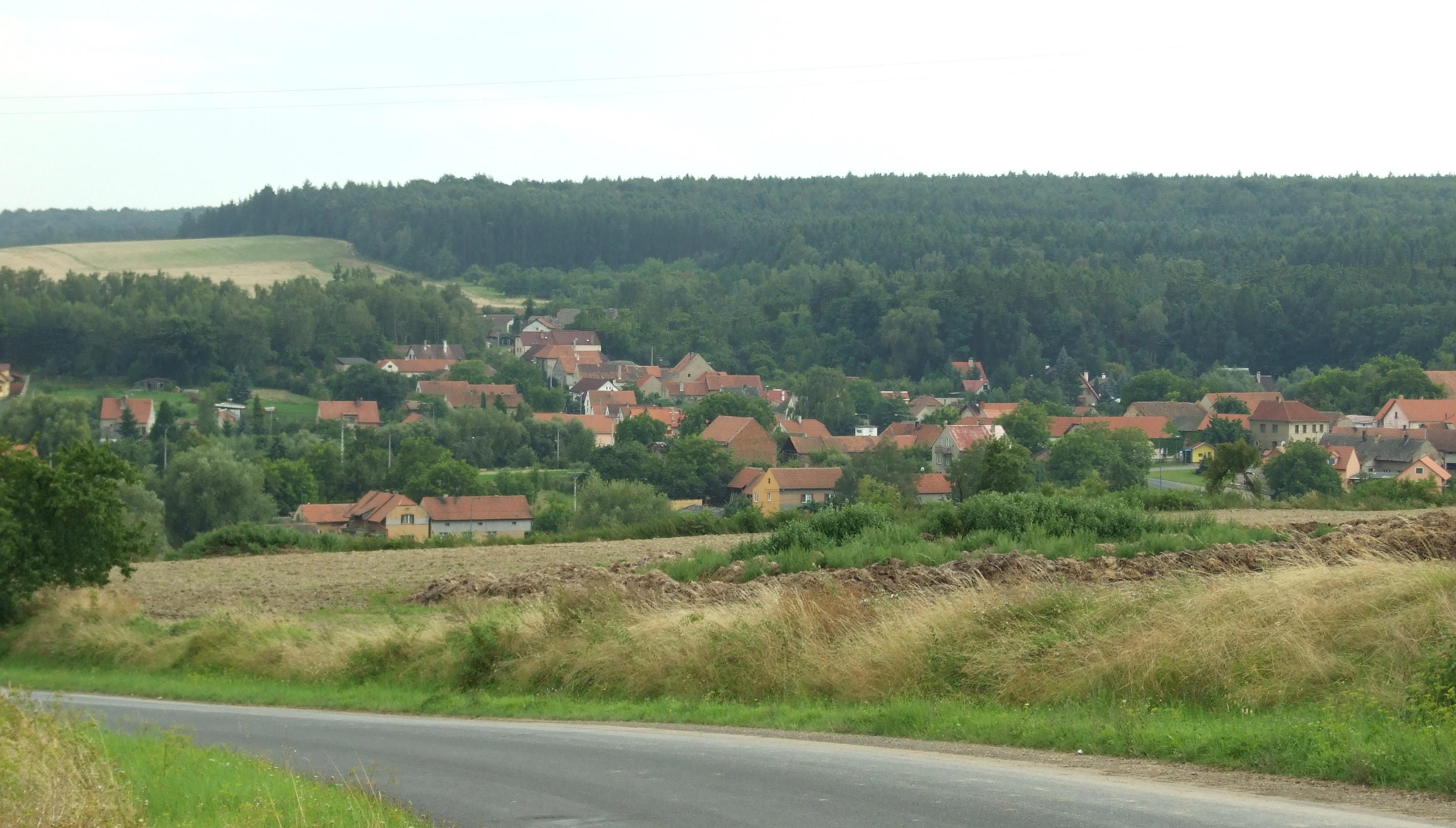 Village of Žerotín seen from Panenský Týnec (north), Ústí nad Labem Region, CZ